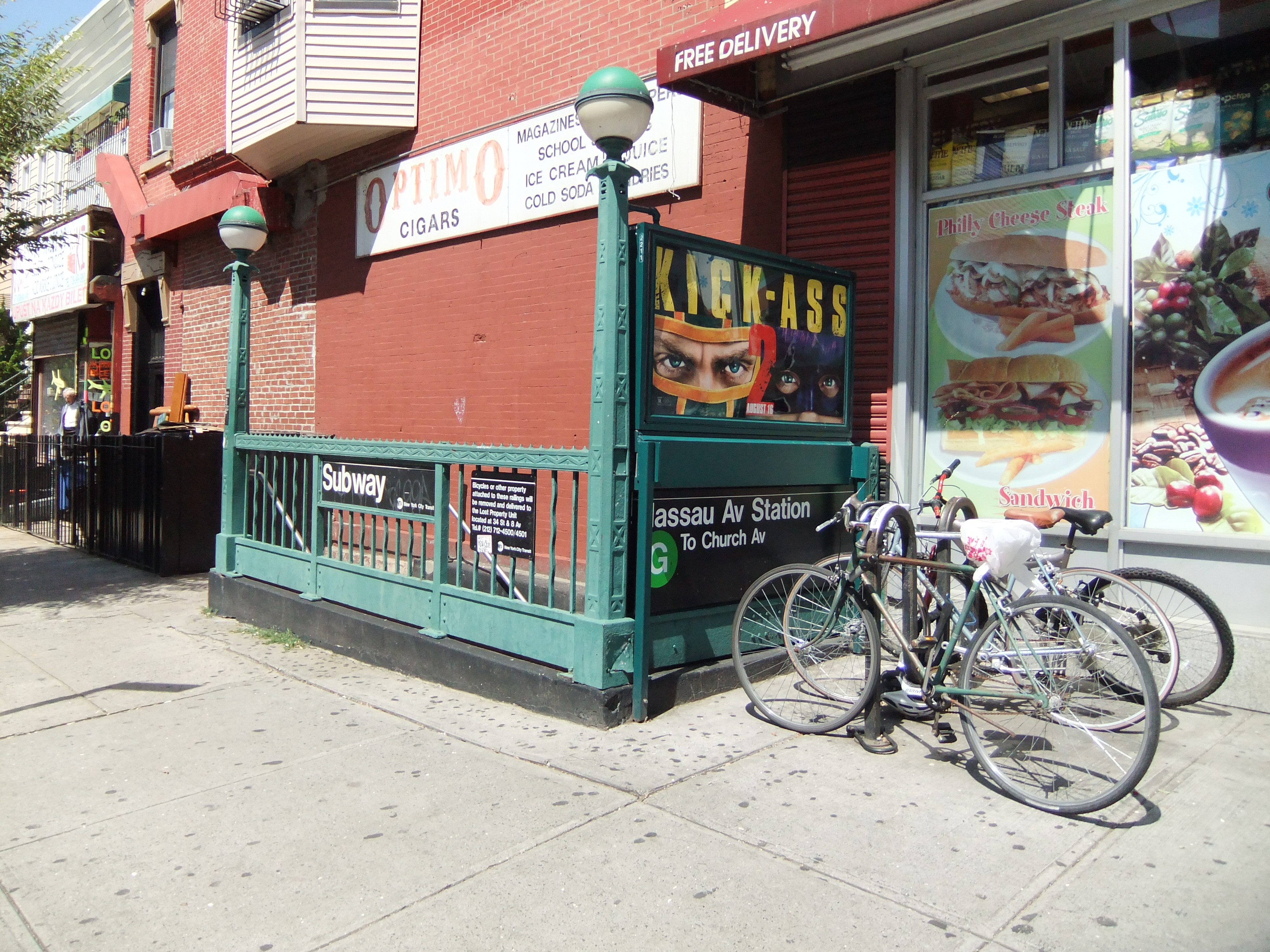 Stairs at Norman Avenue and Manhattan Avenue to the Church Avenue bound platform.